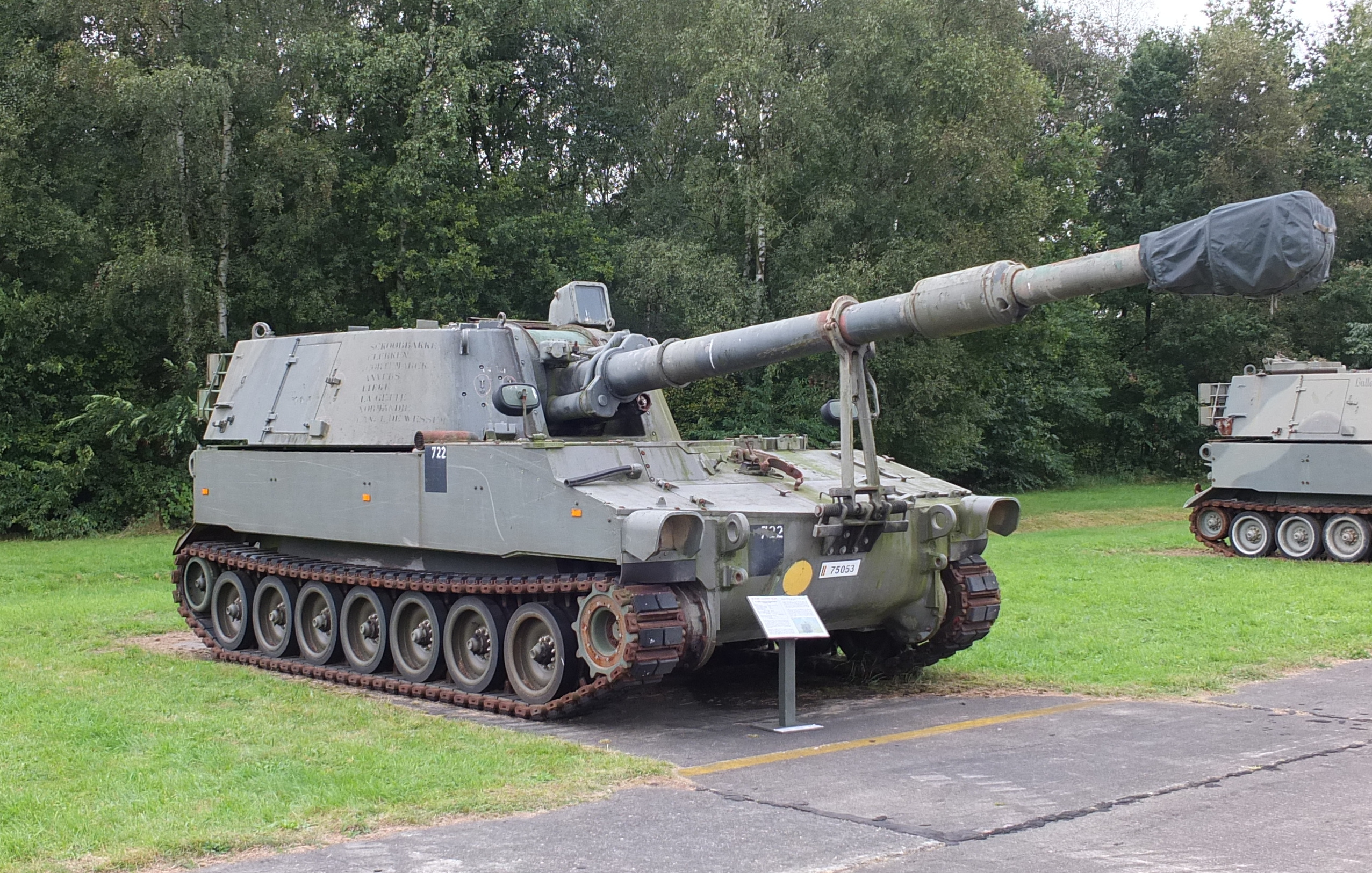 An M109A2 howitzer of the belgian Army at Brasschaat.